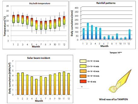 Weather data of the town Le Tampon